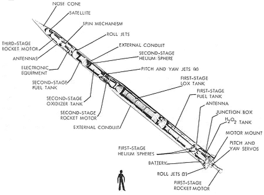 Vanguard rocket cutaway view.